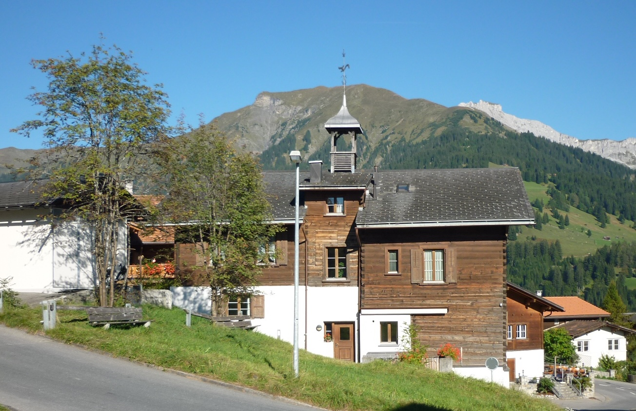 Village Pany GR, Switzerland